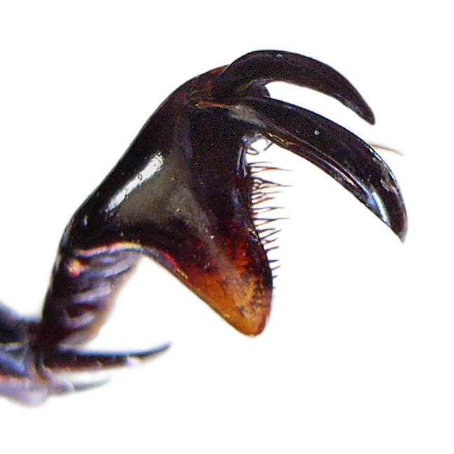 front tibia of male Hydrous piceus